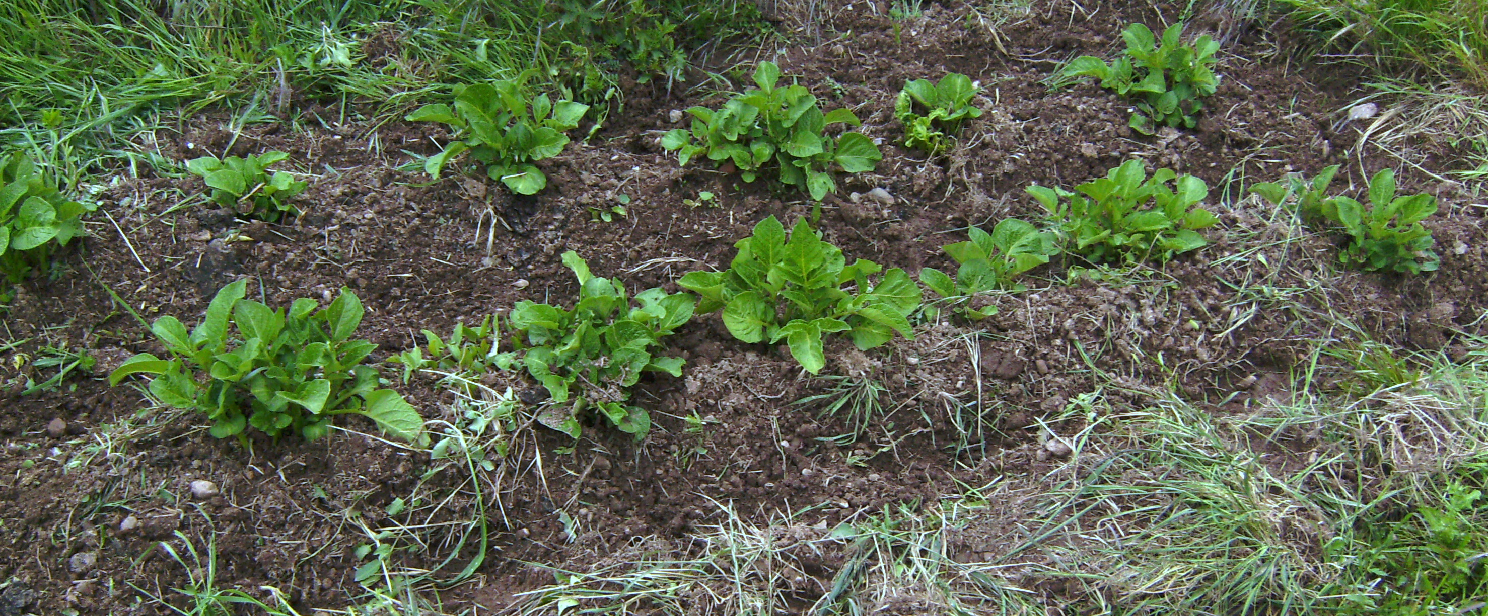 Potato plants (cultivar Kennebec) on the ridges, Castelltallat, Catalonia